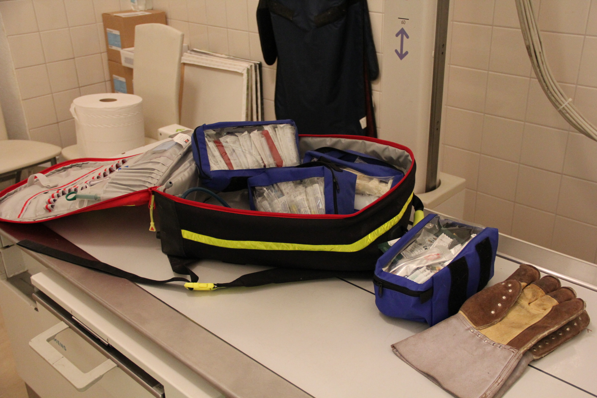 For on-call duty